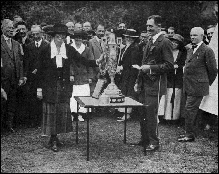 Alexa Stirling being presented with the Robert Cox Cup for winning the 1919 U.S. Women's Amateur Championship, which she had also won in 1916 and would win again in 1920. United States Golf Association vice president Sterling Edmunds is the presenter to the right.